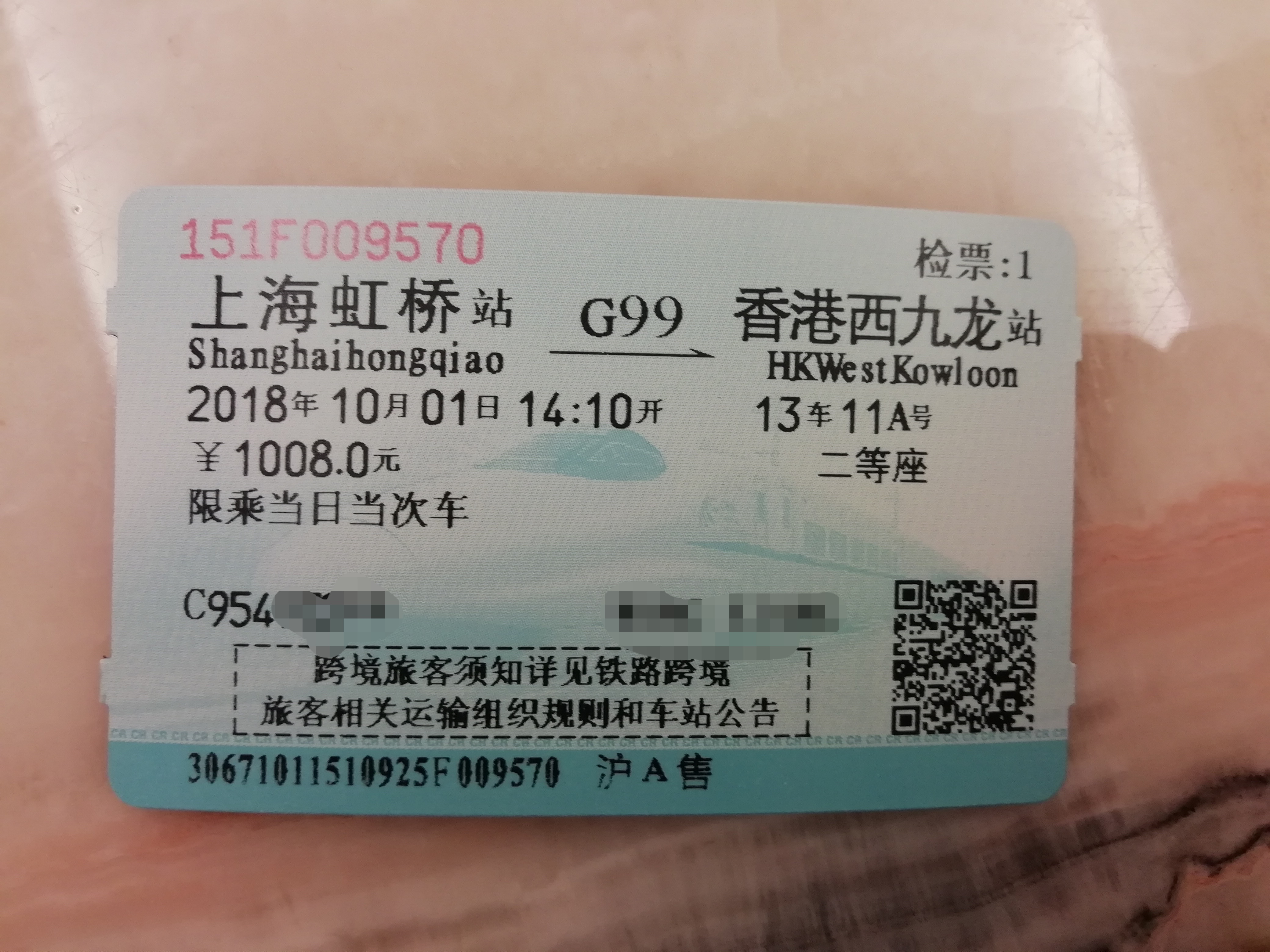 A G99 (Shanghai Hongqiao-HK West Kowloon) ticket, with my dad's Two-way Permit number and name's pinyin.